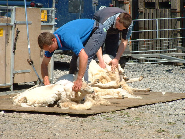 sheep shearing.